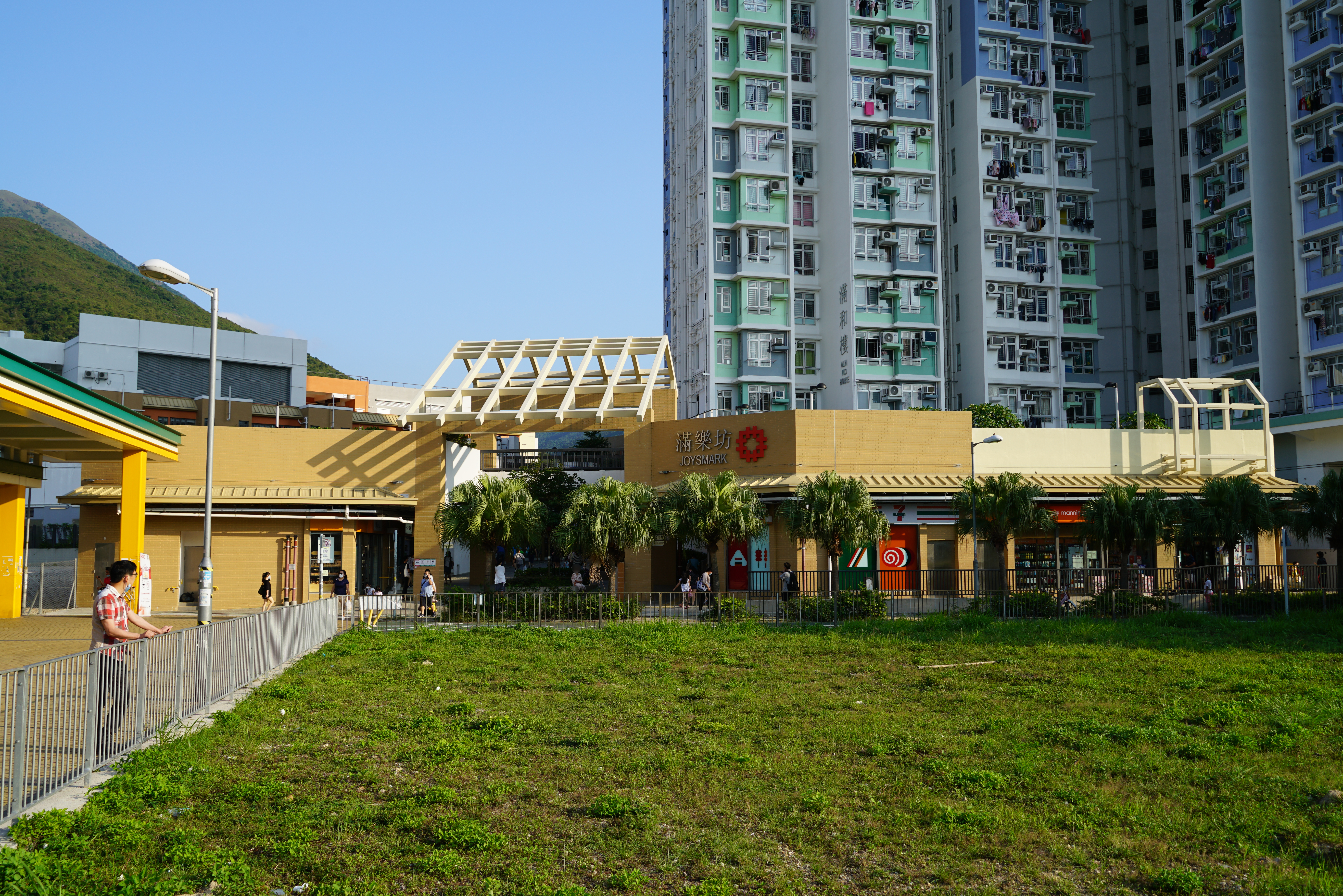 Joysmark, Hong Kong.